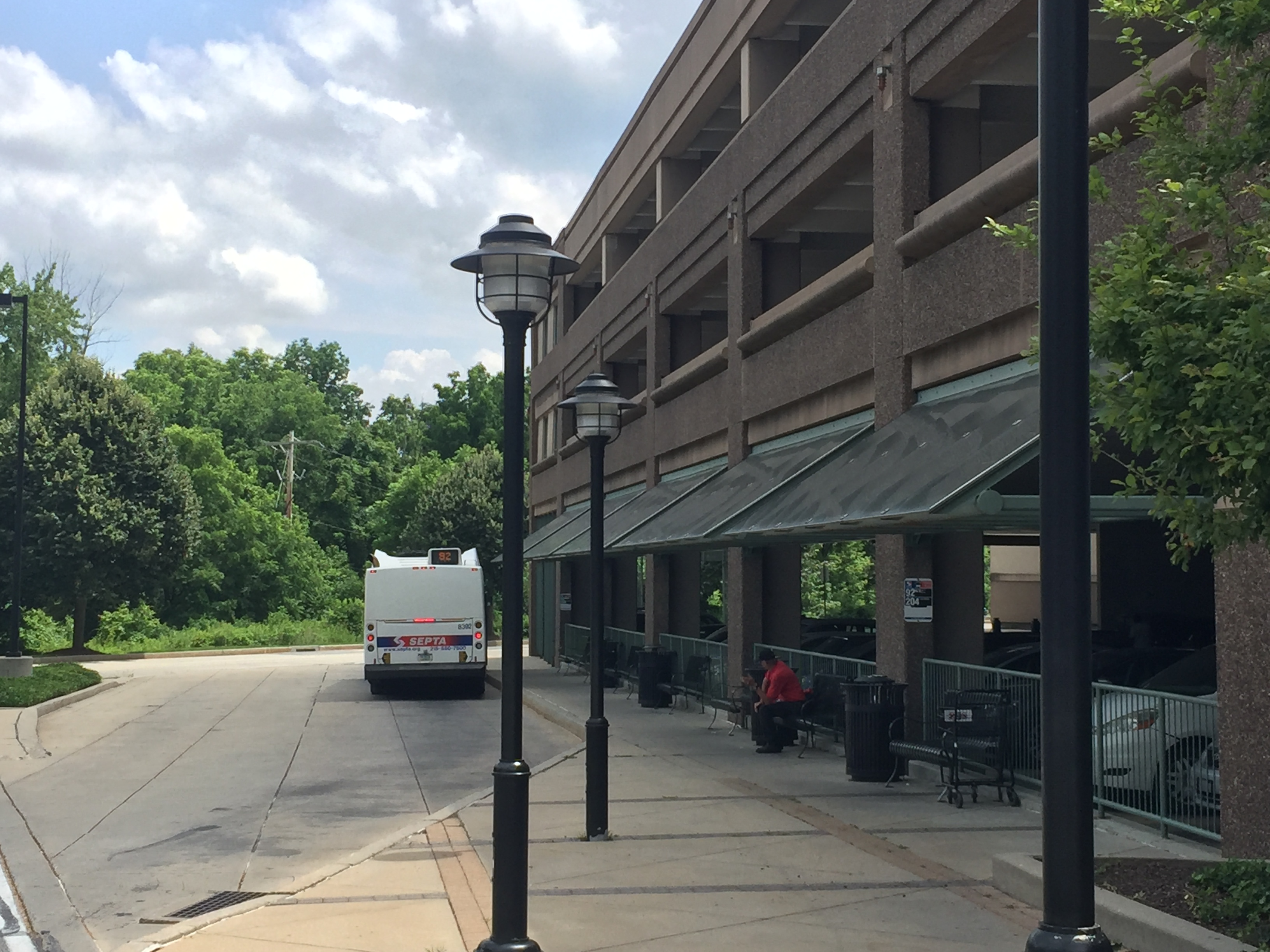 Exton bus station